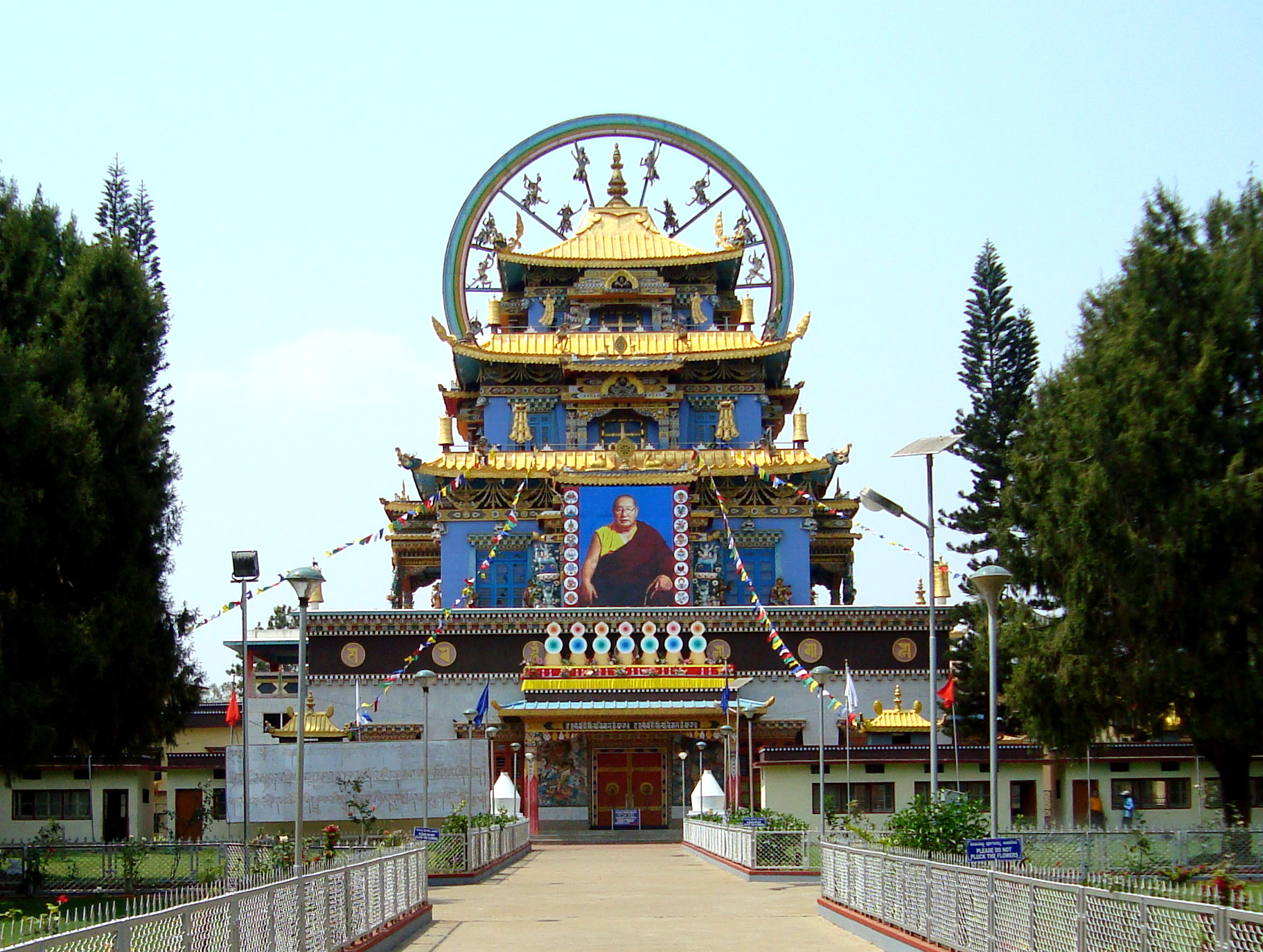 Buddhist Monsatery Coorg